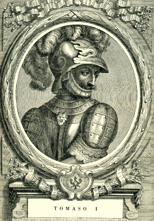 Thomas I of Savoy (1178-1233)